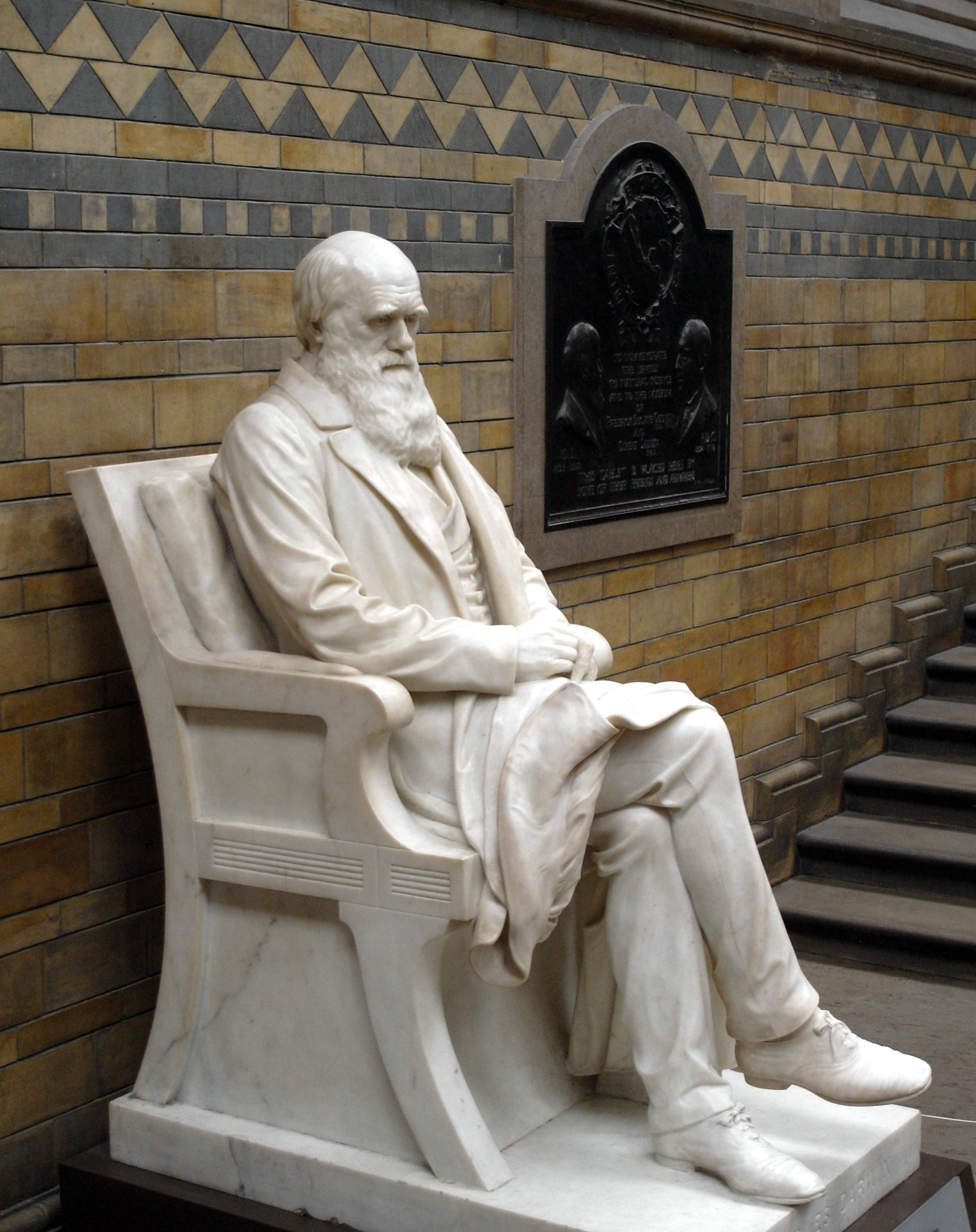 Statue of Charles Darwin in the Natural History Museum, London. The statue was created by Sir Joseph Boehm and was unveiled on 9 June 1885.